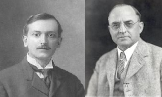 noyes y whitney